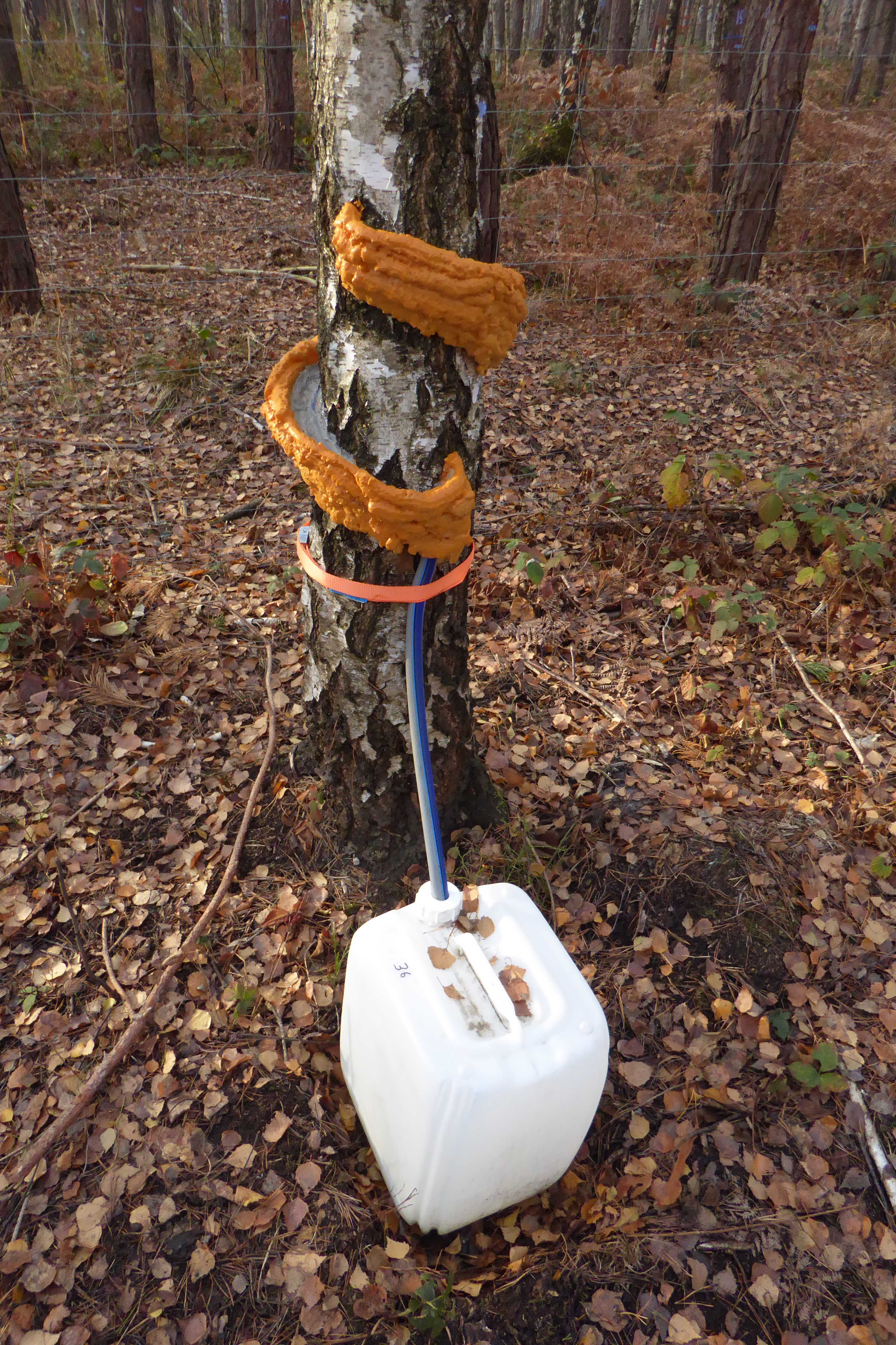 Stemflow volume meter on a scientific test area. The construction out of expanding foam is covered with silicone on the inside in order to make the stem flow volume of the birch tree measurable.